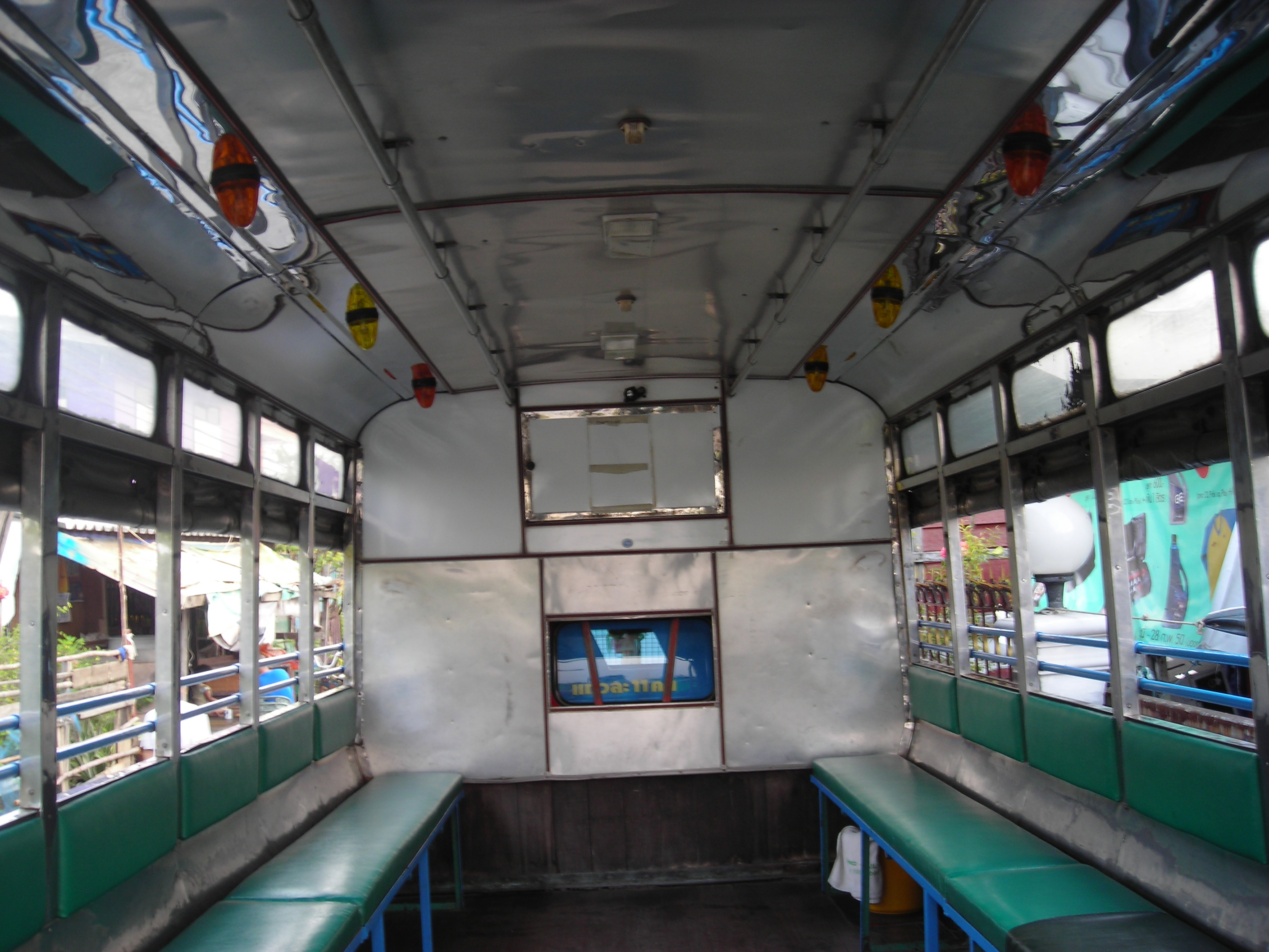 passenger area of a Isuzu NKR Songthaew (Thailand).